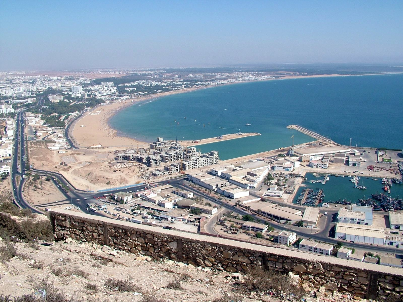 Agadir, Morocco, 2004